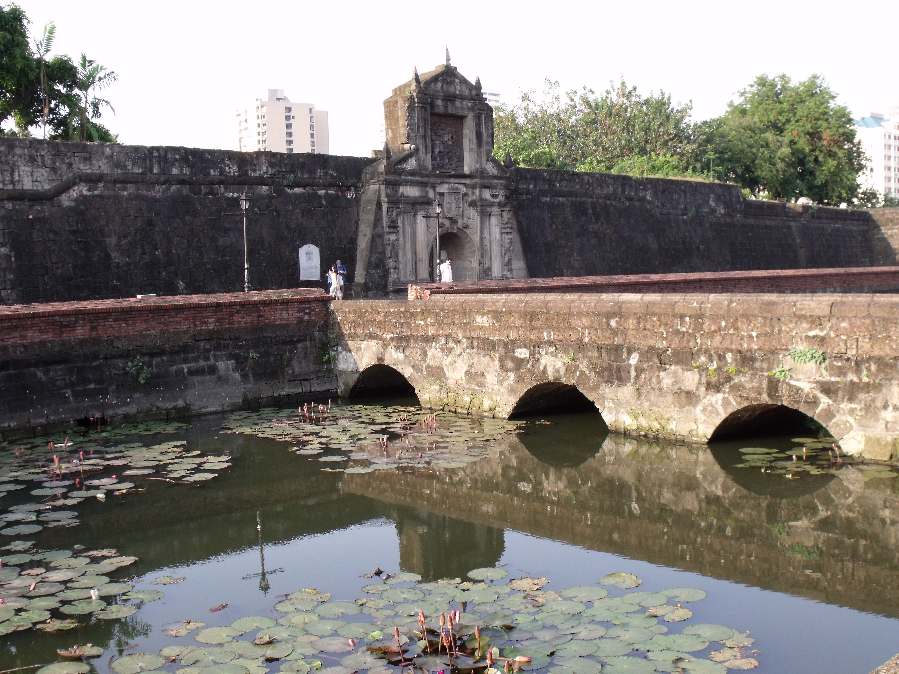 Entrance of Fort Santiago, Intramuros, Manila